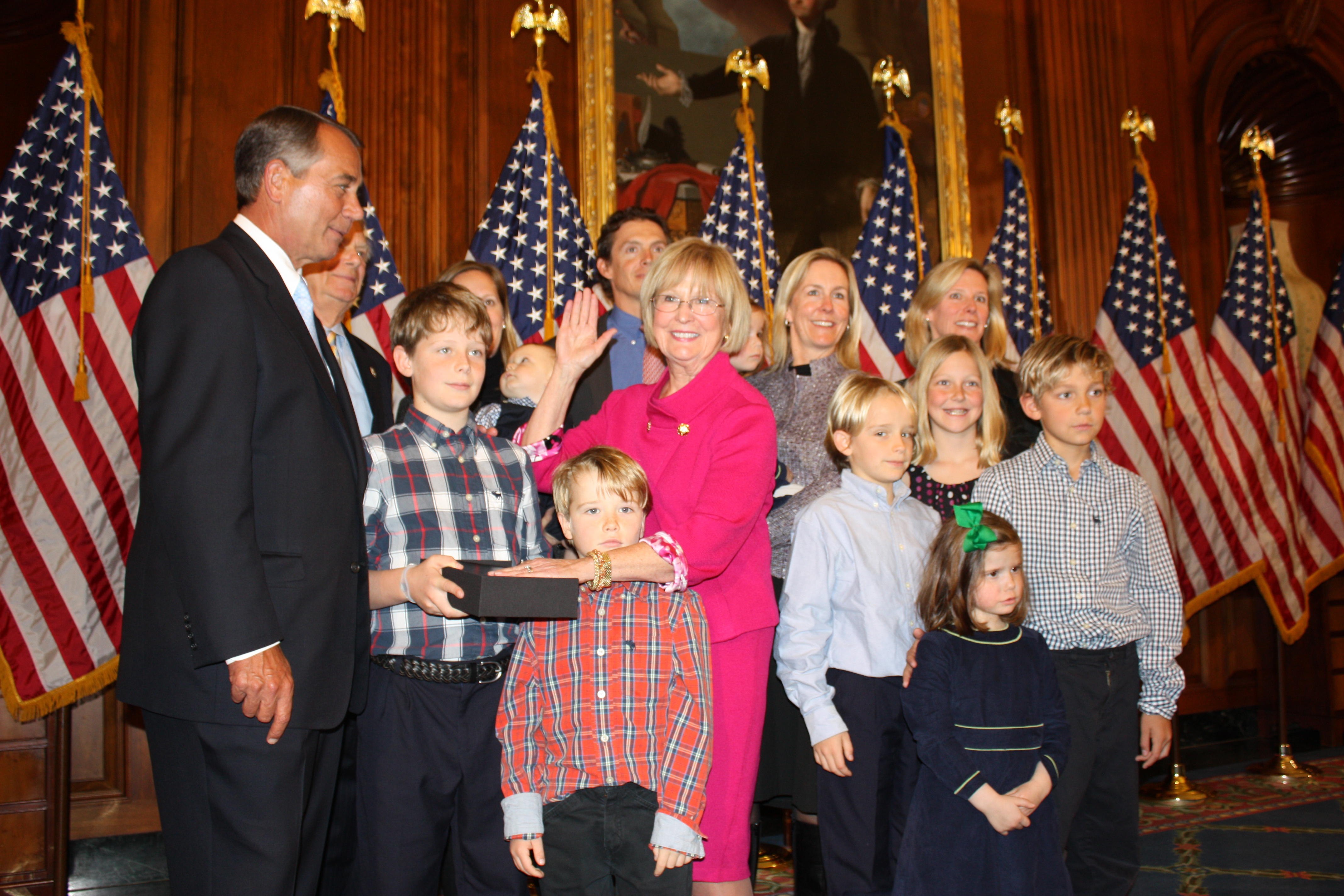 Joined by her husband, children, and grandchildren, Rep. Biggert was honored to renew her oath of office as Representative of the 13th Congressional District of IL for the 112th Congress.